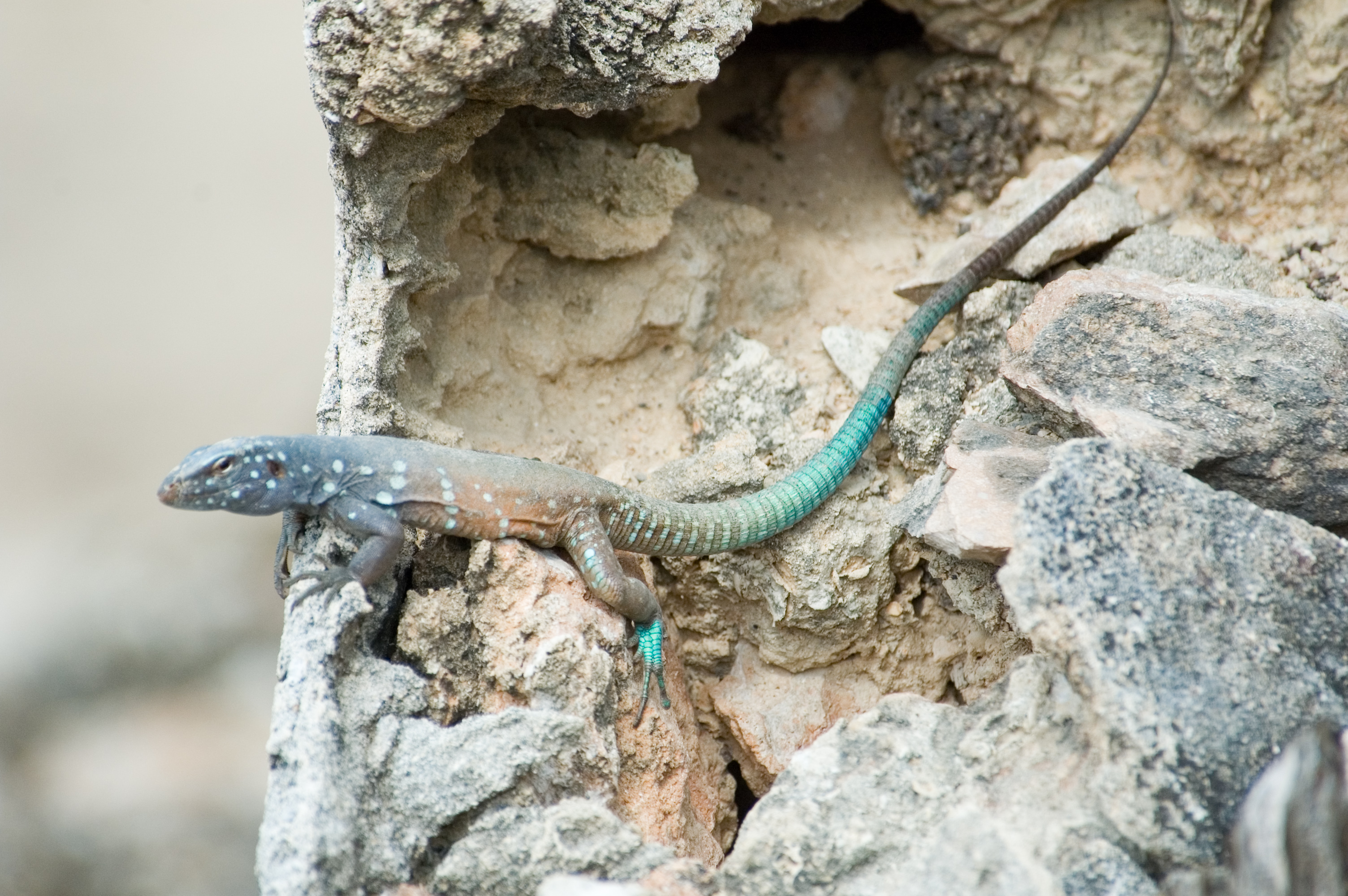 Bonaire whiptail lizard Cnemidophorus murinus ruthven